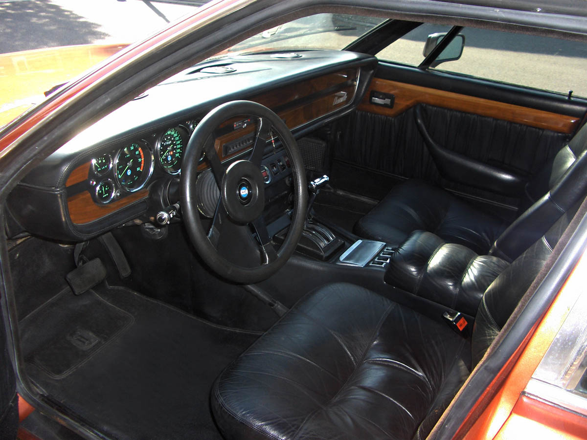 de Tomaso Deauville 1981 (interior). Chassis number 2124?